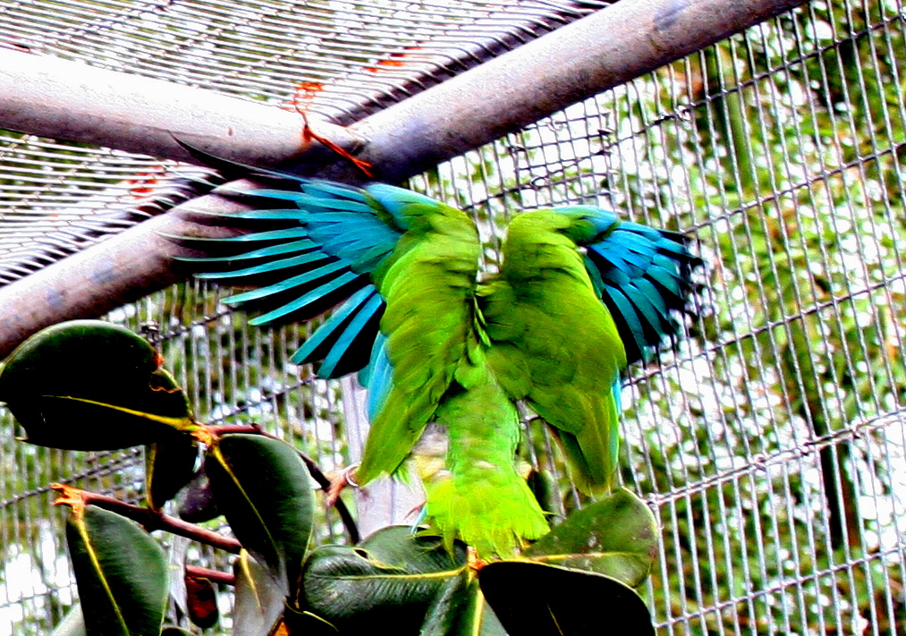 Parrot in flight, view of blue feathers